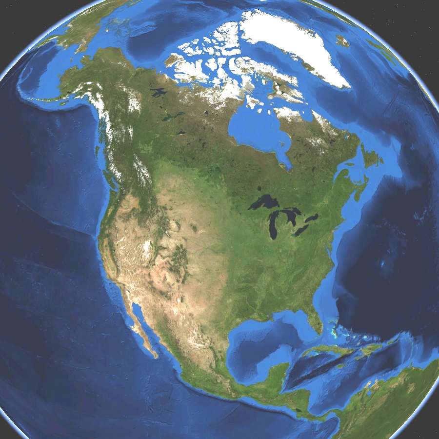 Satellite map of North America. Land terrain and bathymetry (ocean-floor topography).